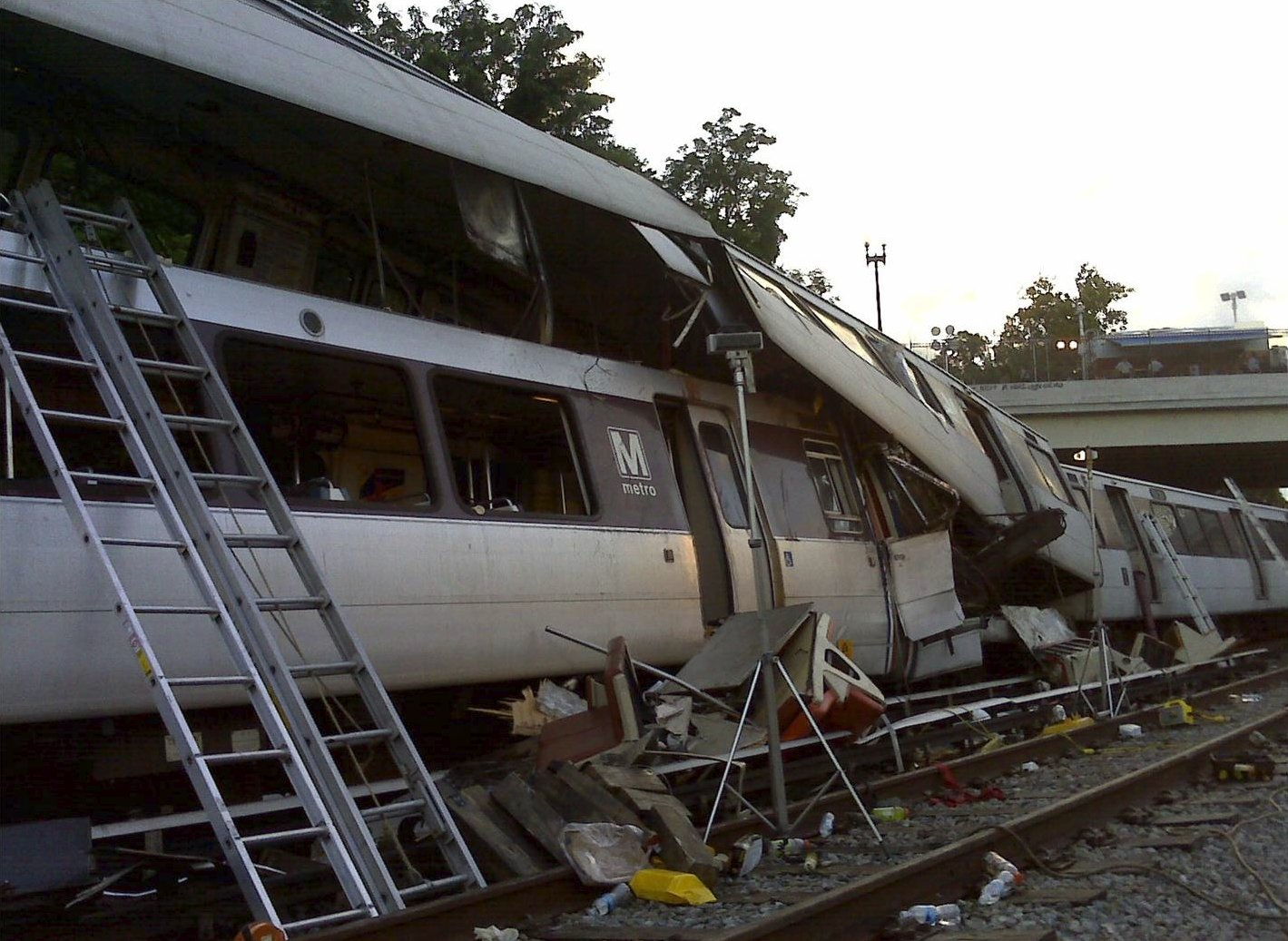 NTSB file ID 422860. Original caption, "NTSB accident photo"